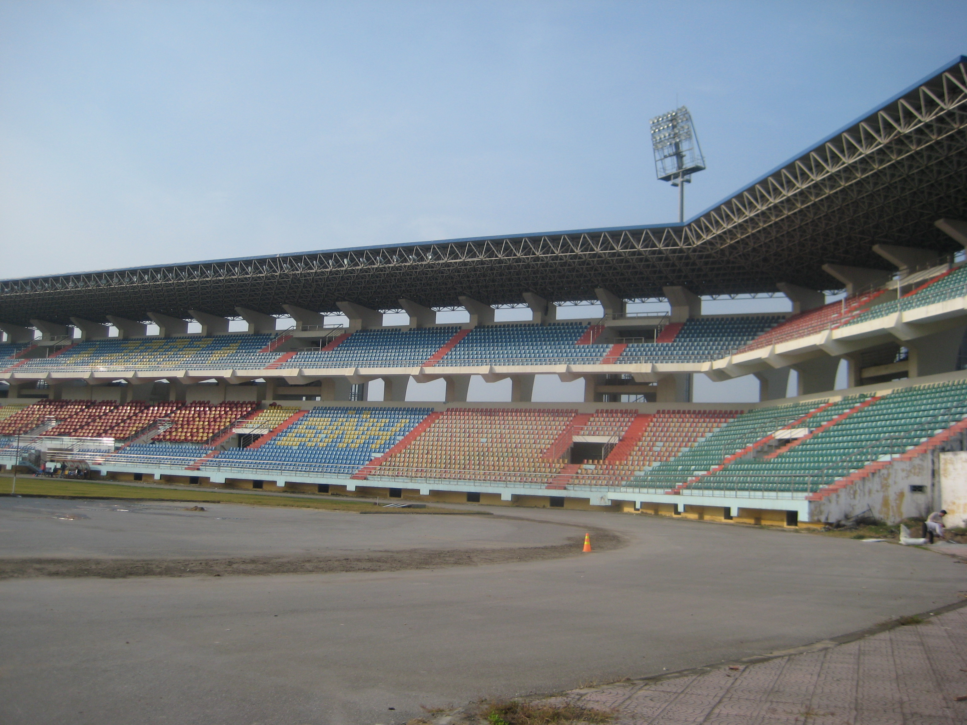 Photo features the main stand of Ninh Bình StadiumTiếng Việt: sân vận động Ninh Bình ở bên quốc lộ 1a